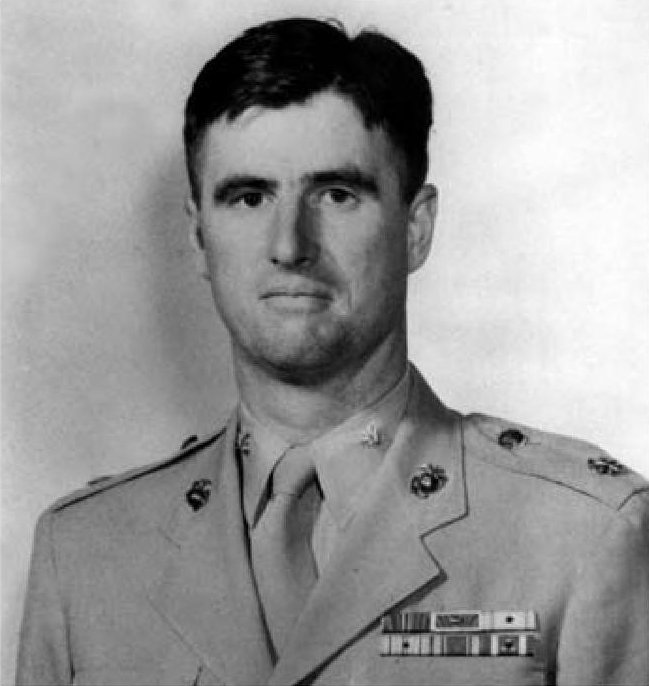 LtCol William Frederick Harris